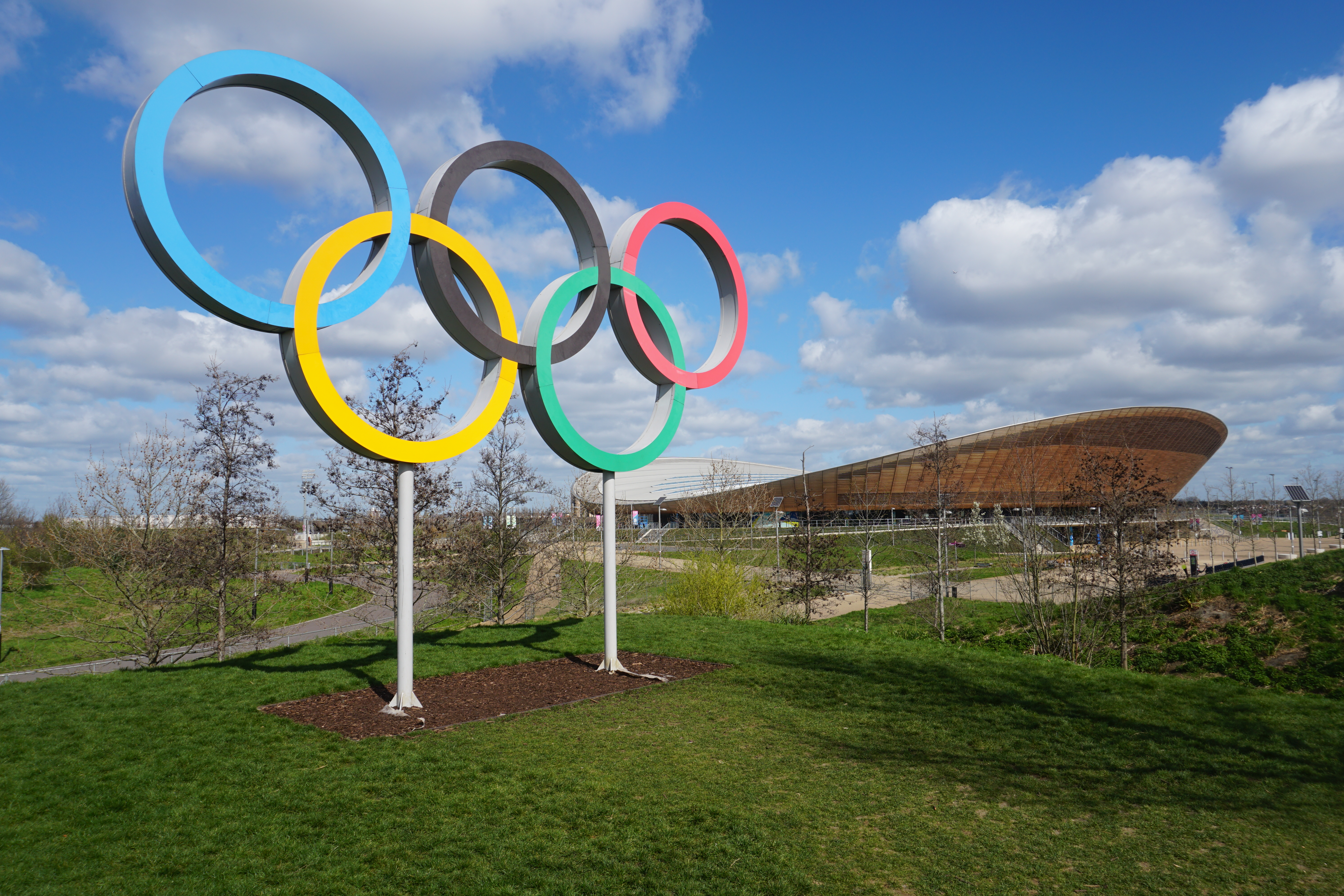 This is a picture of the Olympic Rings at the Queen Elizabeth Olympic Park in London, with the Velodrome in the background